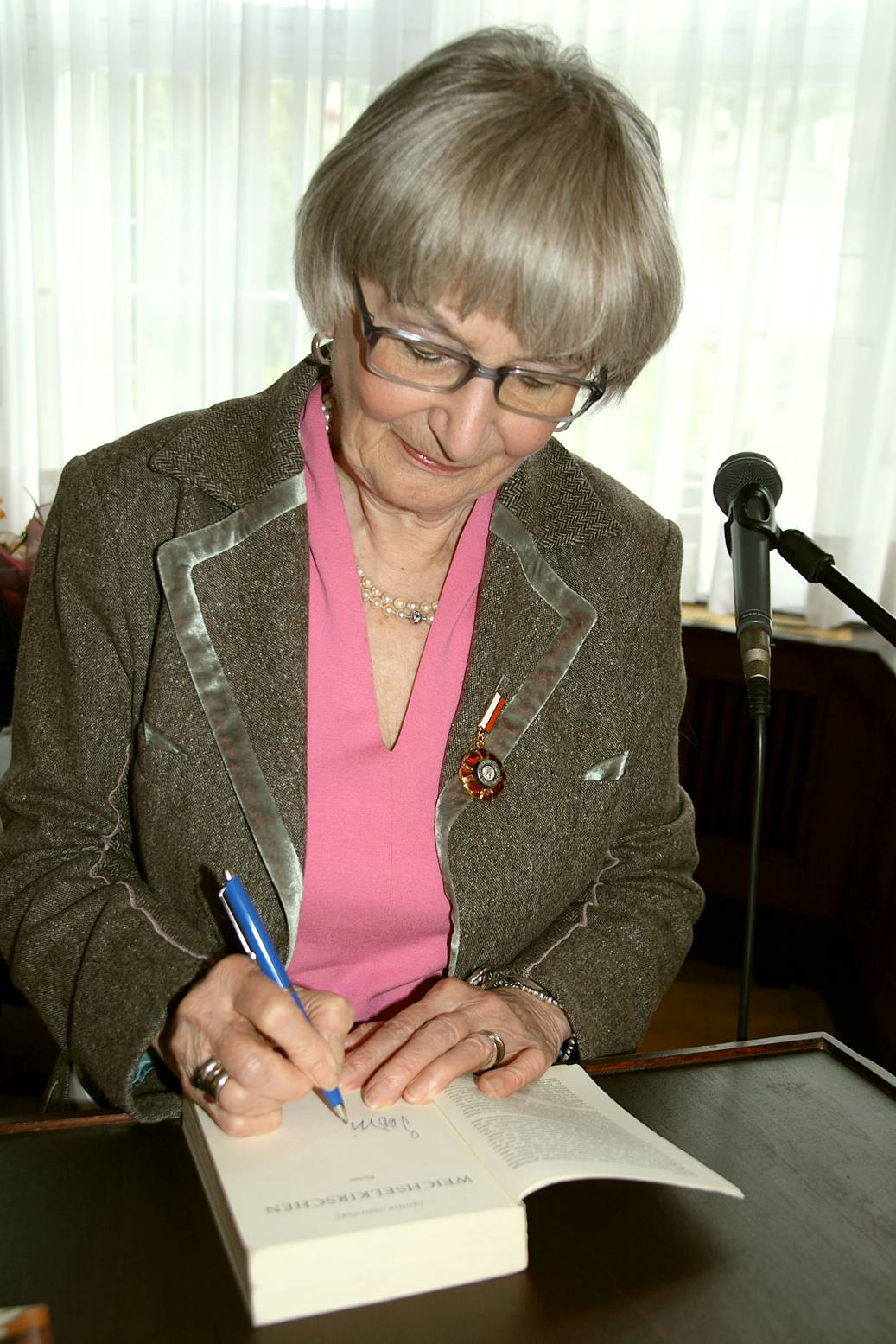 Leonie Ossowski after awarding the order of Merit for Polish Culture